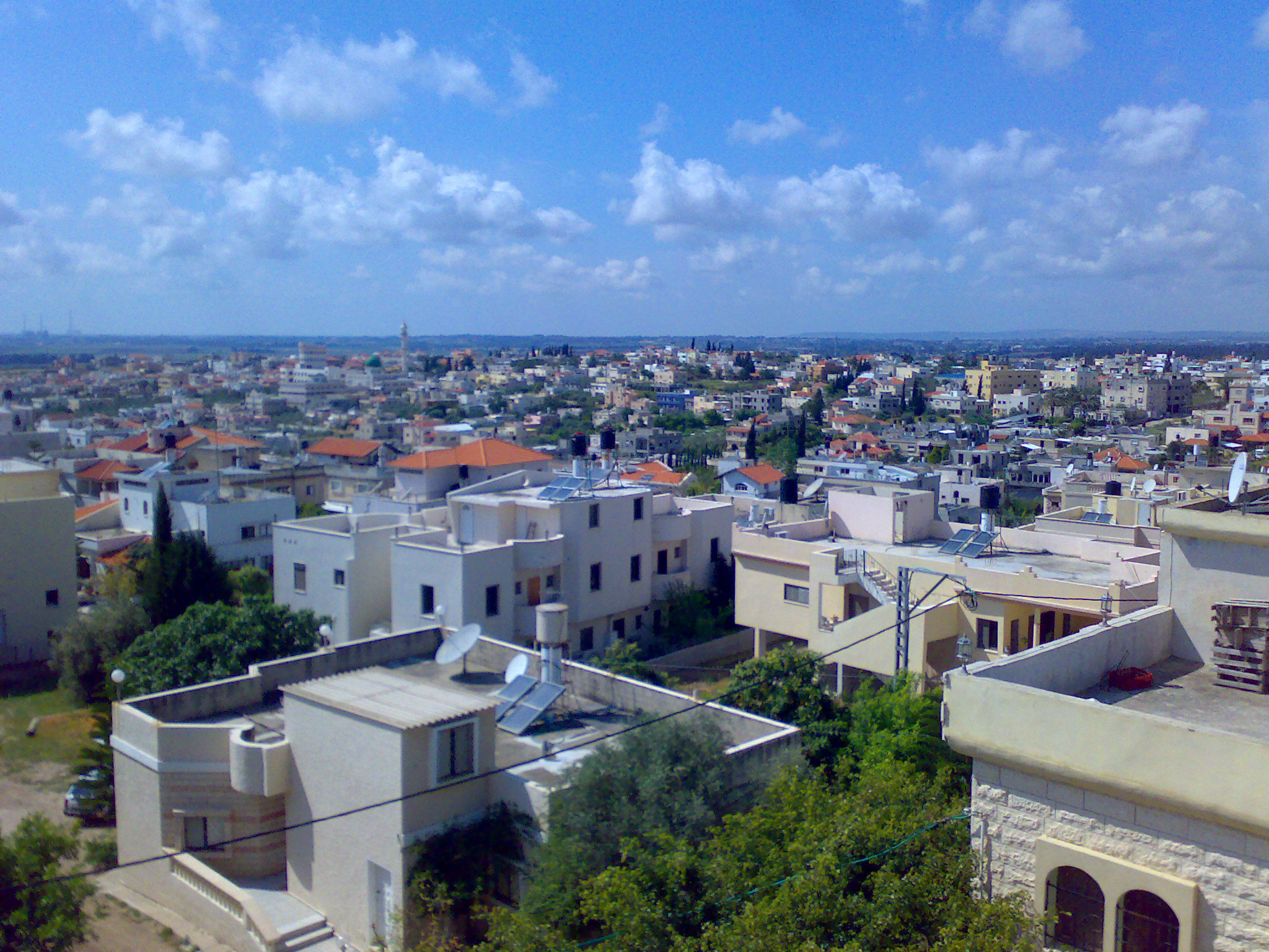 A skyline image of Baqa taken in April 2007 from a cellphone. The point of shoot is the roof of a house in the Kherbe area, and it looks west. Note the far Caesarea power plant at left which is lacated 15km west to Baqa.